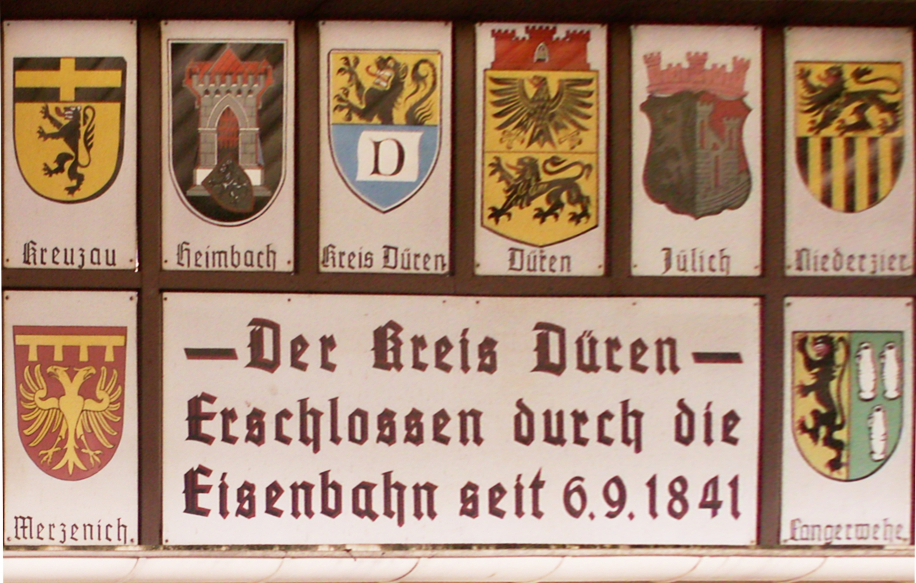 Düren County - connected to the railway since 6.9.1841. Sign on the eastern wall of the station building of Düren.